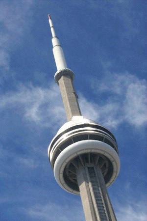 Image taken by imobius on August 12, 2005.